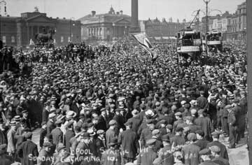 Gathering of striking docker works in Liverpool, England during the summer of 1911.